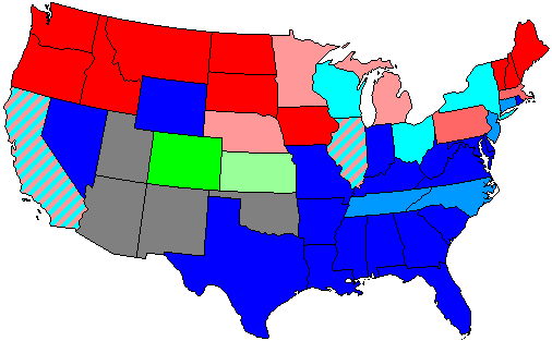 Summary of party control of U.S. house seats in the 53rd United States Congress following election. Stripes indicate a tie between two or more parties. Legend: 80.1-100% Democratic seat majority 60.1-80% Democratic seat majority 60% or less Democratic seat plurality 60% or less Republican seat plurality 60.1-80% Republican seat majority 80.1-100% Republican seat majority 60% or less Populist seat plurality 60.1-80% Populist seat majority 80.1-100% Populist seat majority